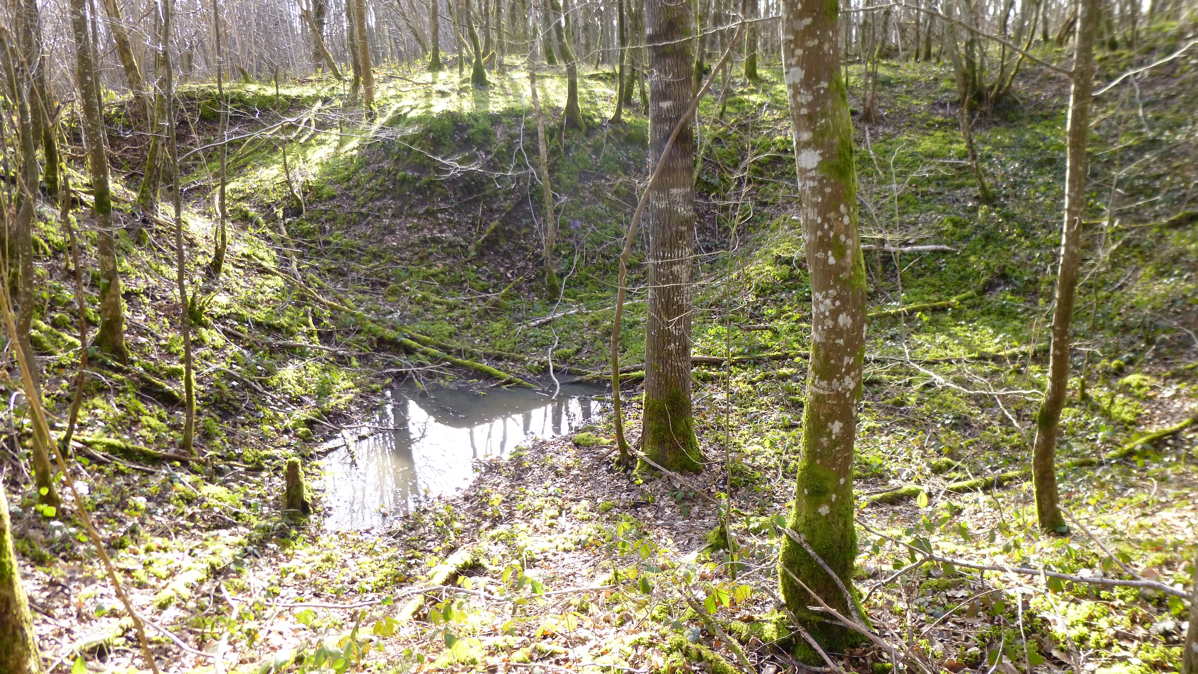 The "ferrier", Tannerre-en-Puisaye, Yonne, Burgundy, France. Mining hole filled with water, among mounds of slag.